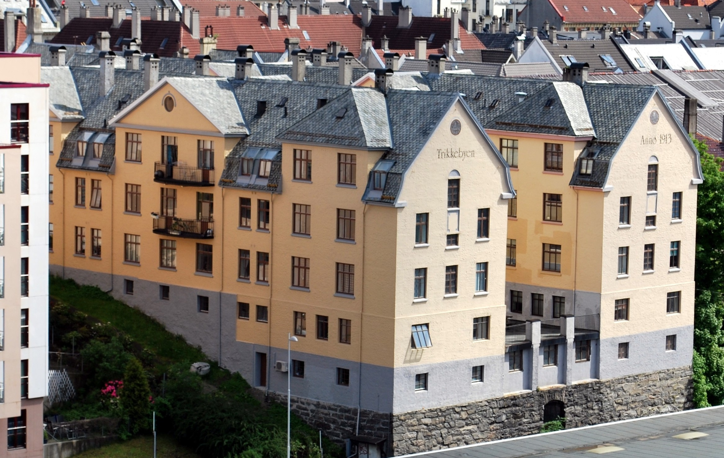 Trikkebyen at Møhlenpris in Bergen.